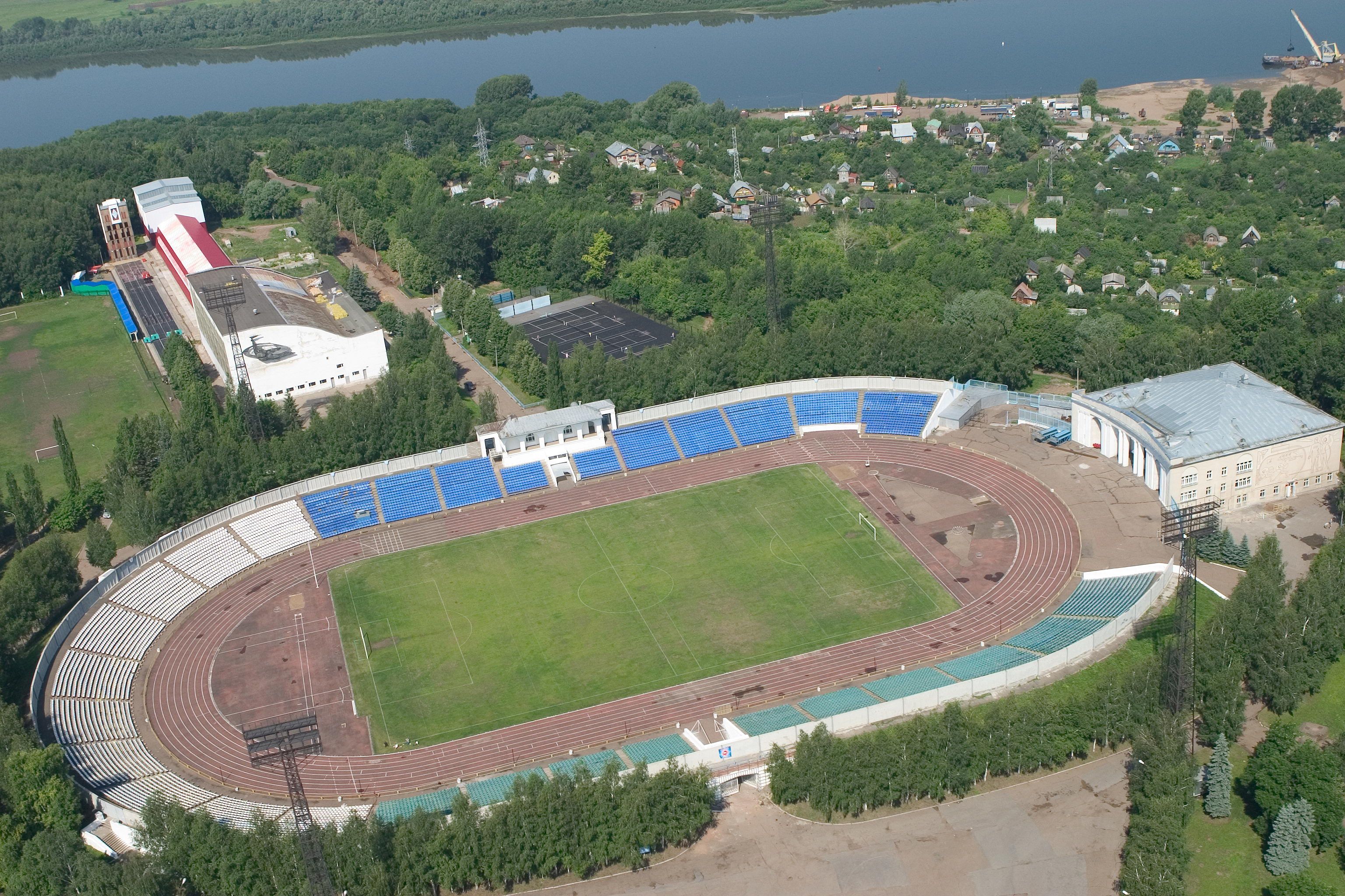 Neftyanik Stadium in Ufa